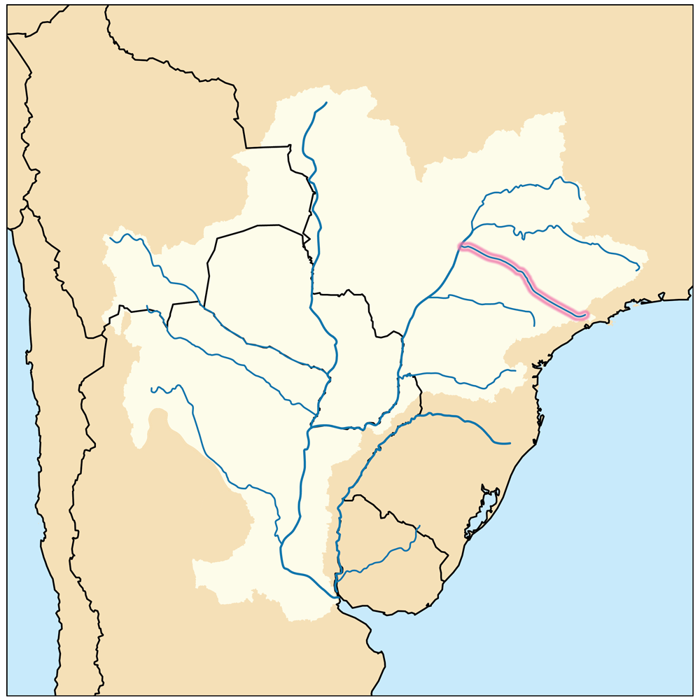 This is a map showing the Tietê River highlighted within the Paraná River drainage basin.